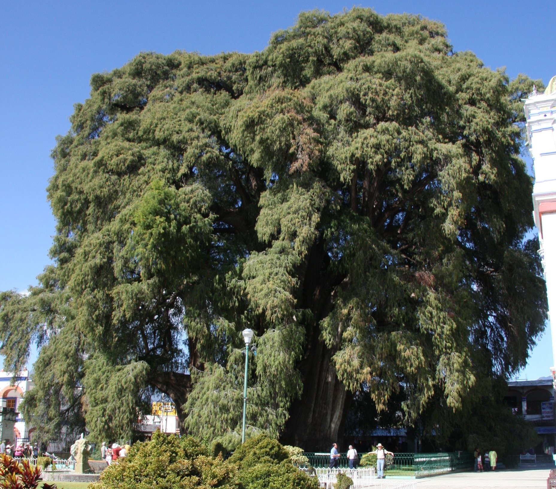 Taxodium mucronatum tree in Santa Maria del Tule